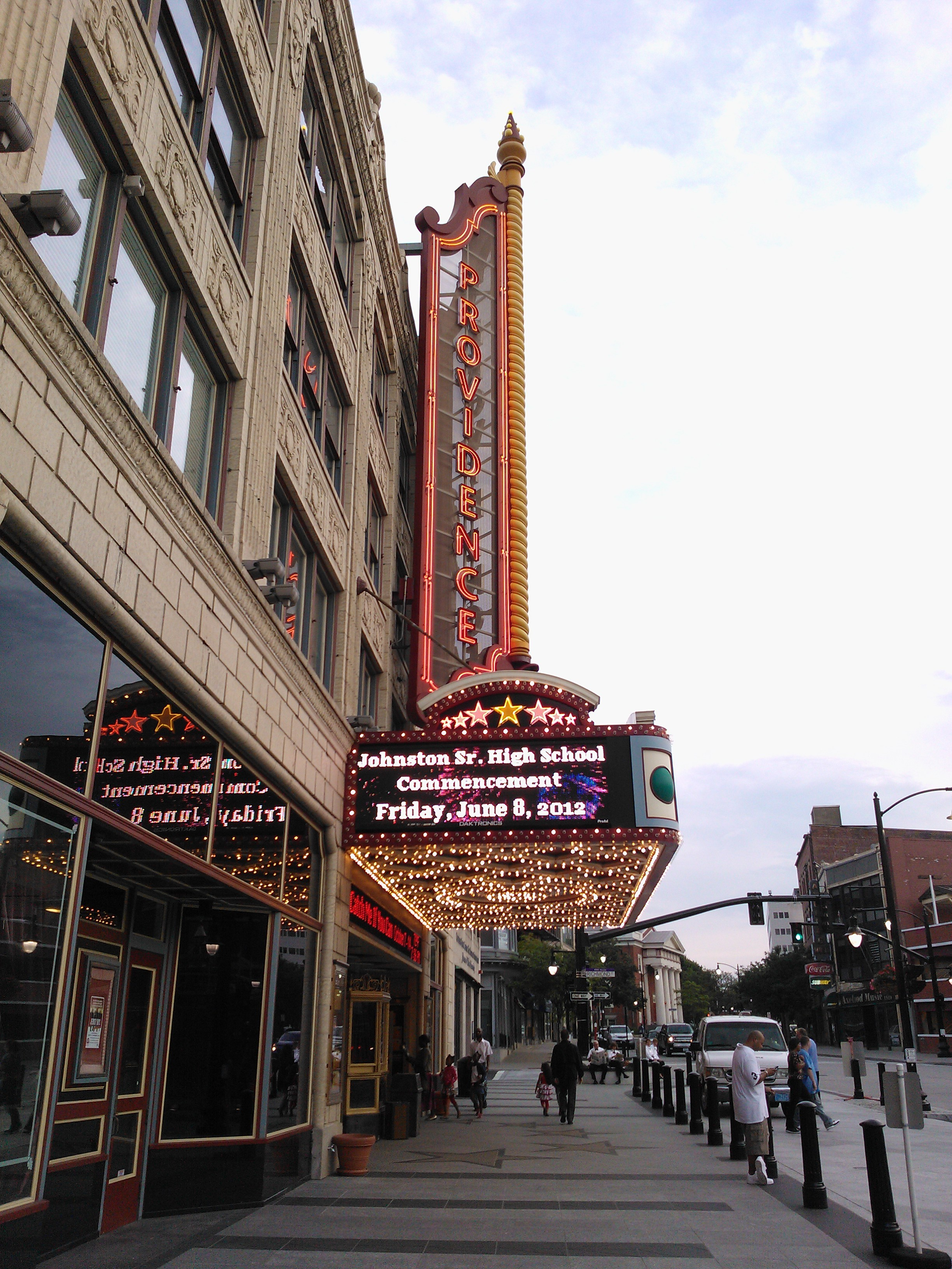 Providence Performing Arts Center